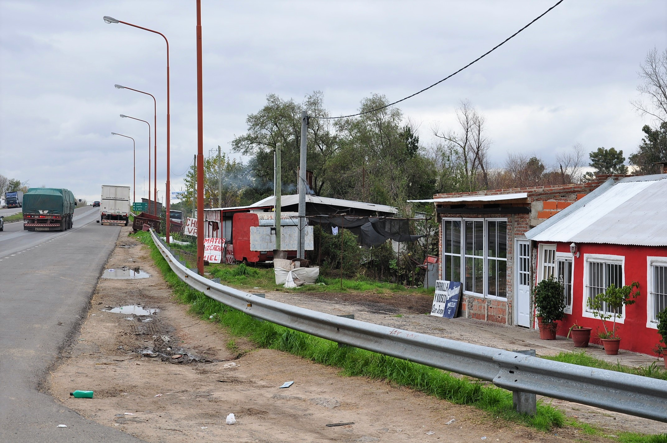 National Road No.12 passing through the hamlet of Brazo Largo (municipality of Villa Paranacito, Islas del Ibicuy department, Entre Ríos province, Argentina)